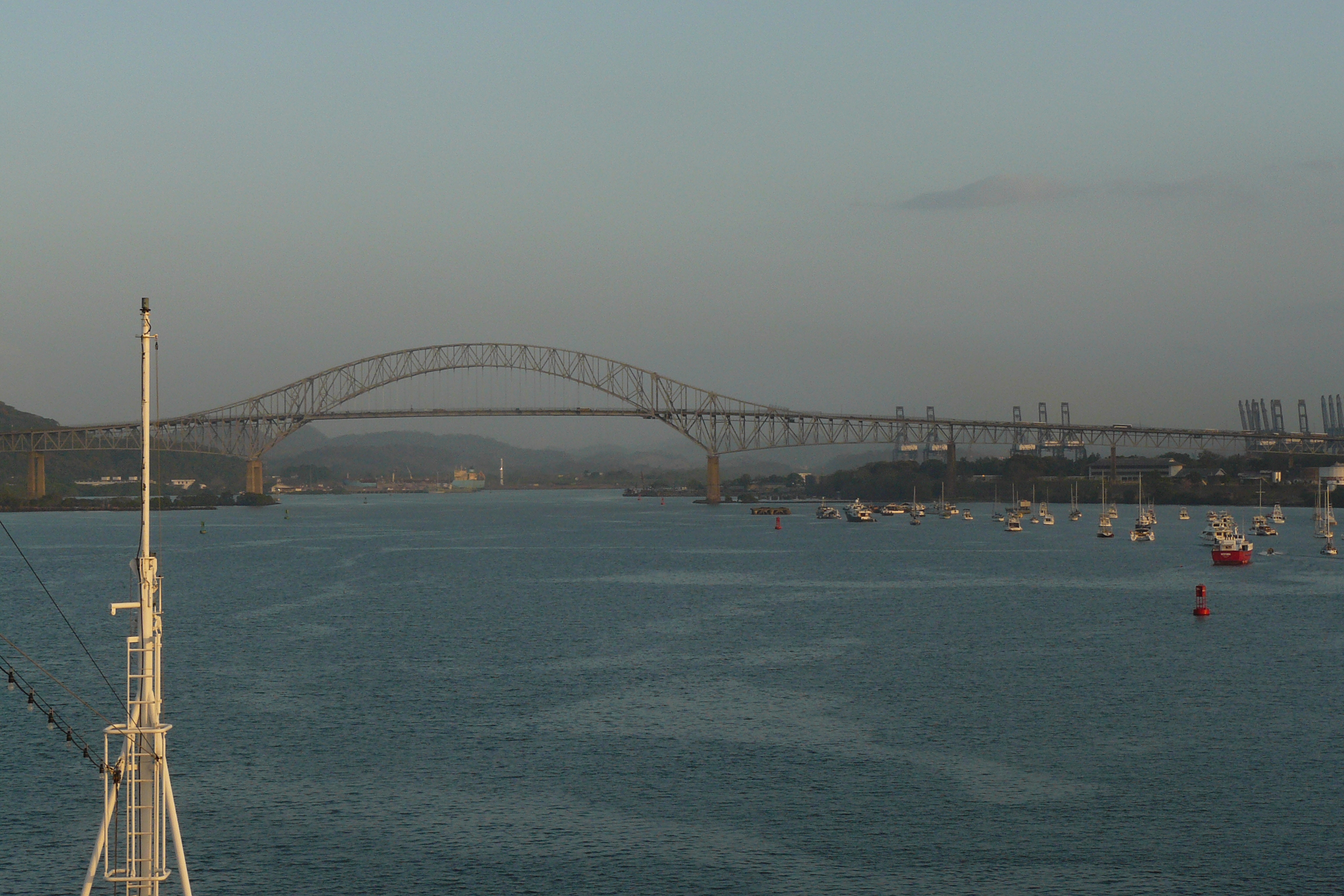 View on Brigde of the Americas, coming from the Pacific Ocean